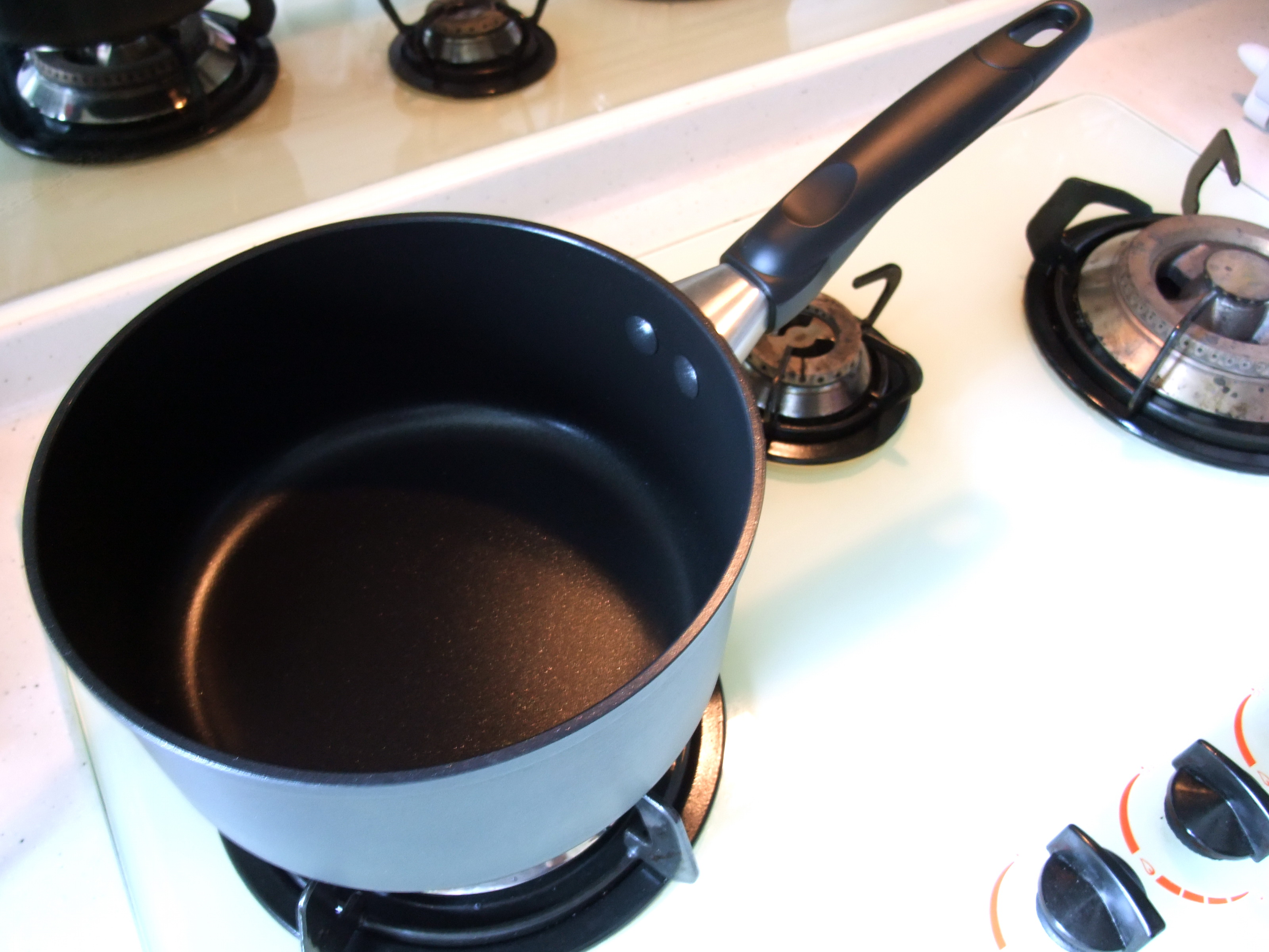 Meyer 20cm 2.8L non-stick aluminium saucepan